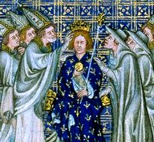 Charles the Bald crowned Emperor